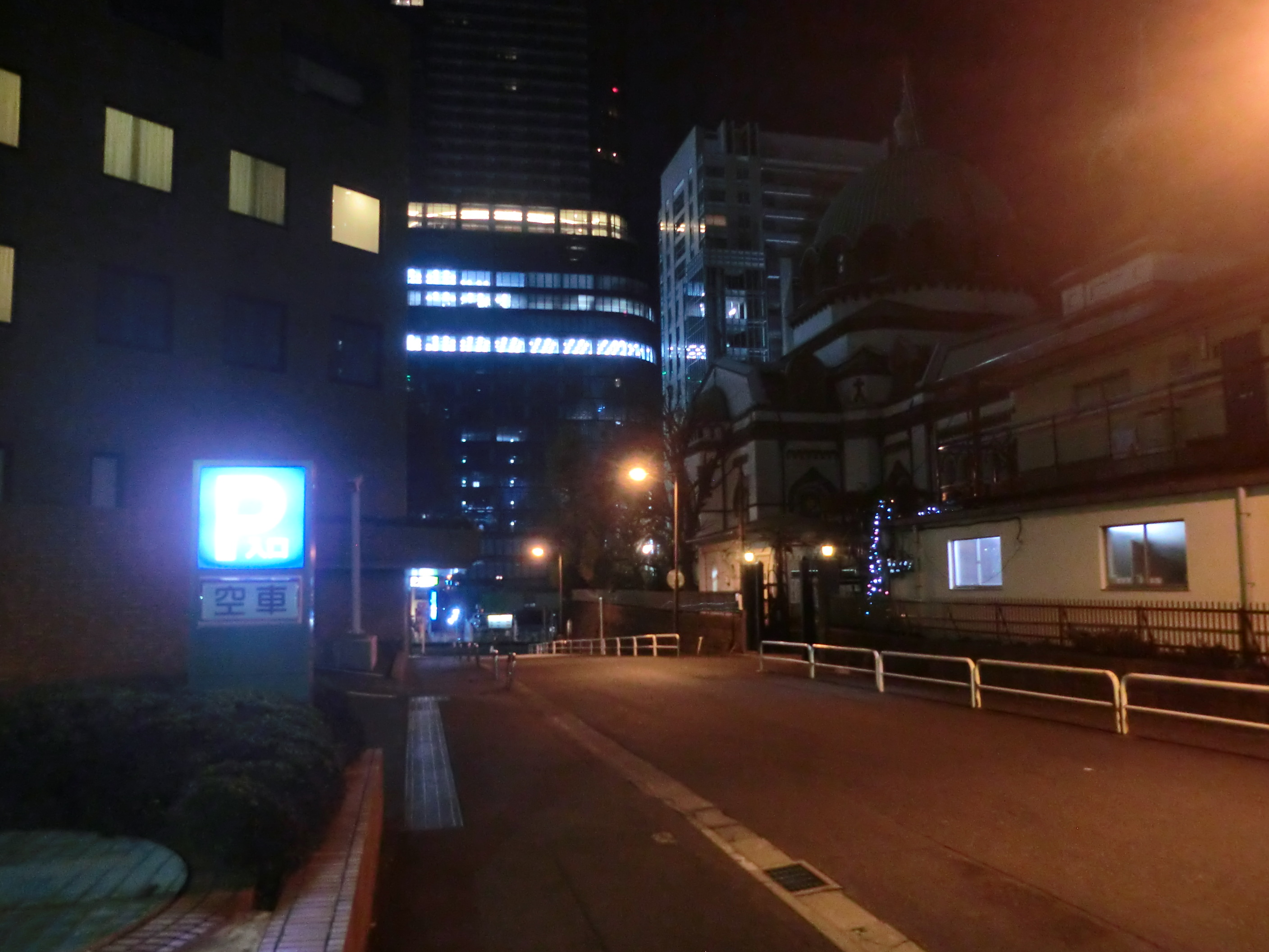 Kobaizaka(apricot sloop) in Chiyoda,Tokyo,Japan.